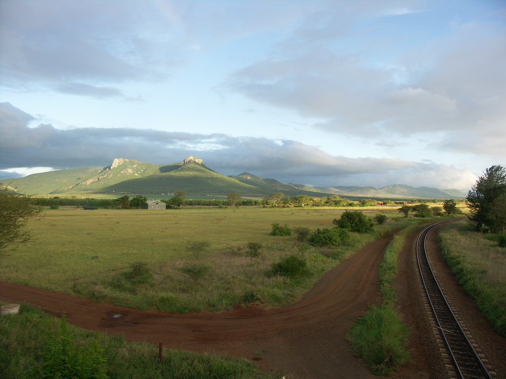 Mkuze "airport" (MZQ/FAMU) & Ghost Mountain at sunset.